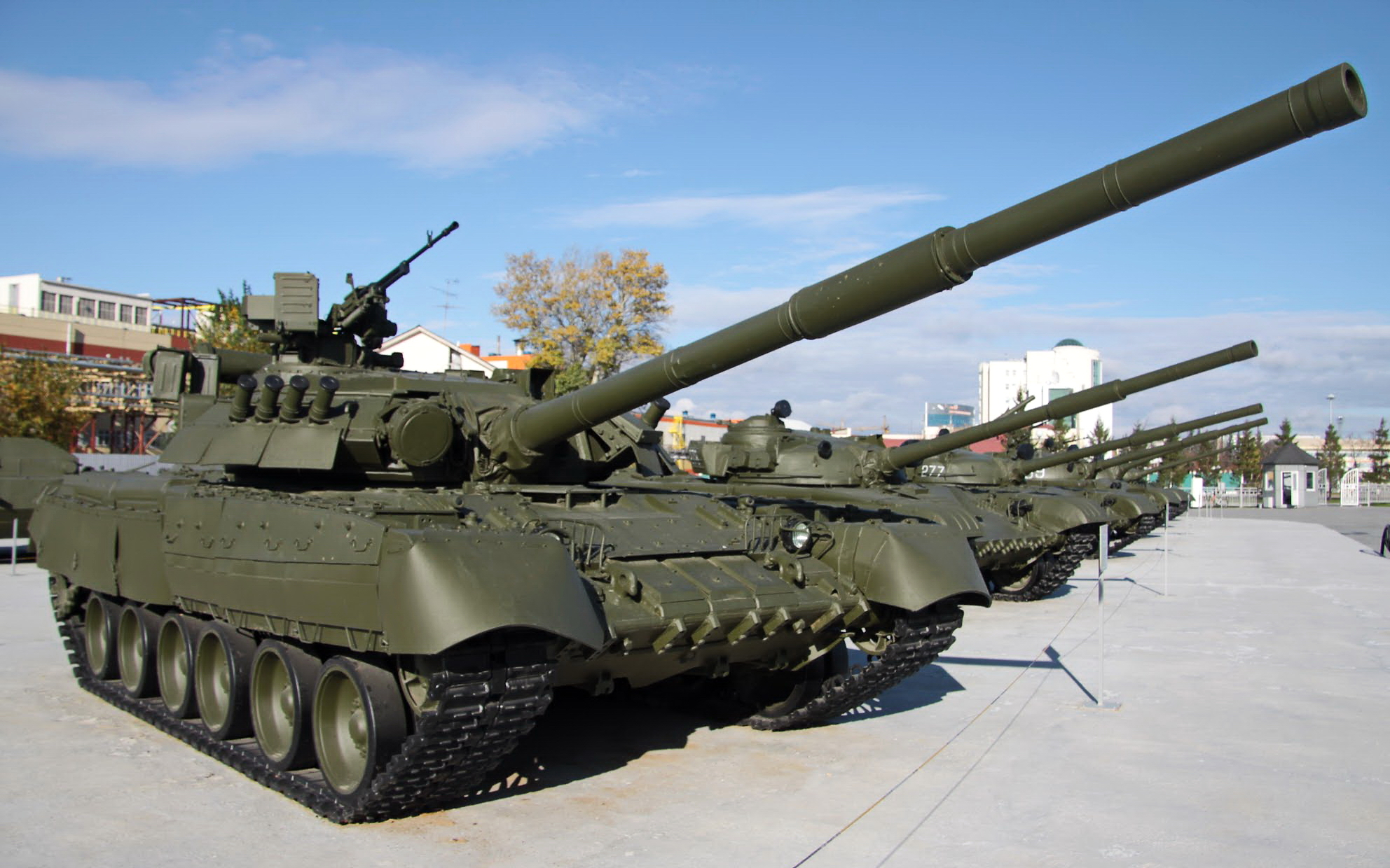 Verkhnyaya Pyshma Tank Museum 2012